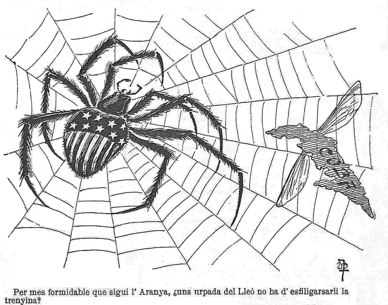 Drawing from the Catalan newspaper "La Campana de Gràcia" 1896